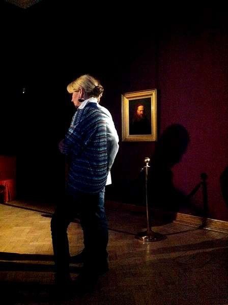 Benvenuto Cellini, Self Portrait (alleged by the owner), Exhibited in Moscow State Museum of Decorative Art